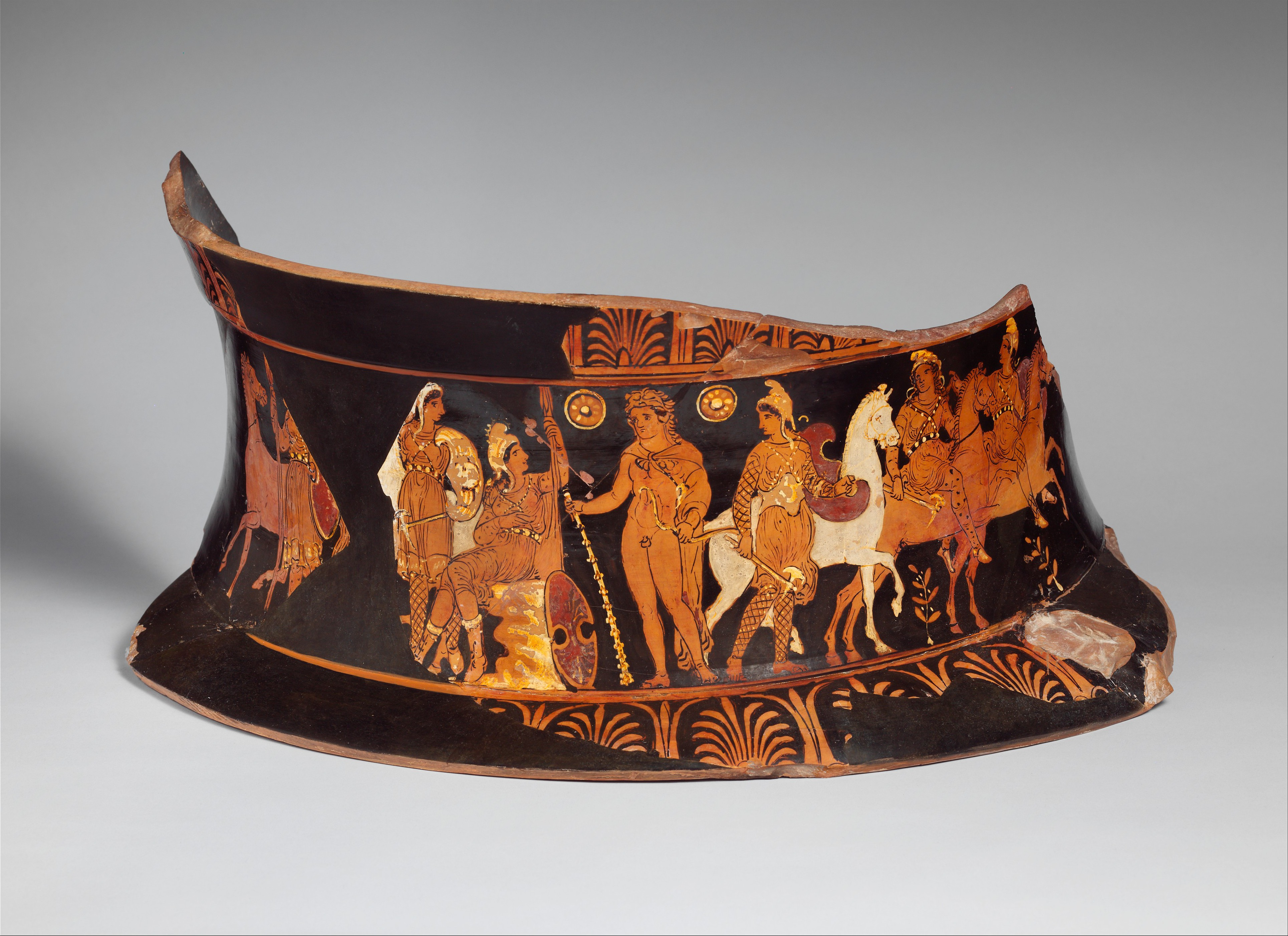 Hippolyte, queen of the Amazons, with Herakles between Amazons